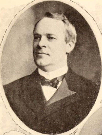 Portrait of New York state senator William W. Armstrong, of Rochester